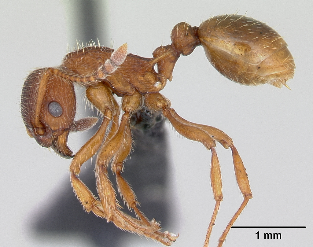 Profile view of ant Myrmica gallienii specimen casent0172712.